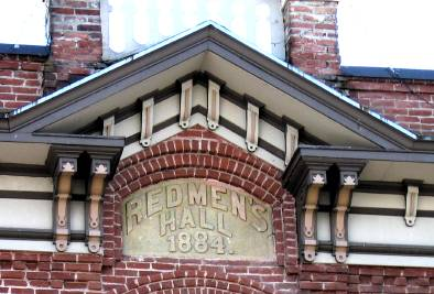 Redmen's Hall, Jacksonville, Oregon, 2008